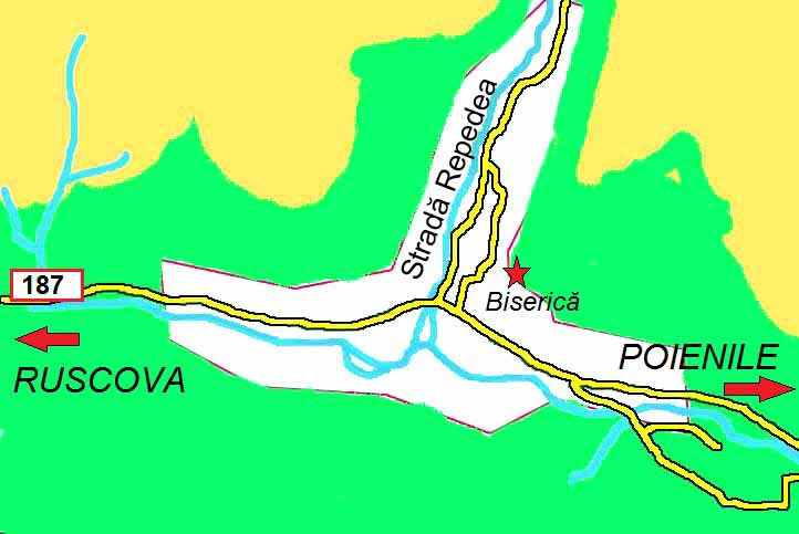 Repedea urban map